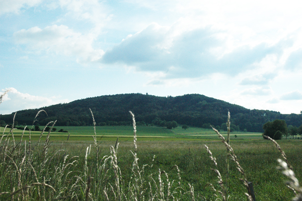 View on Eisenberg located near Korbach